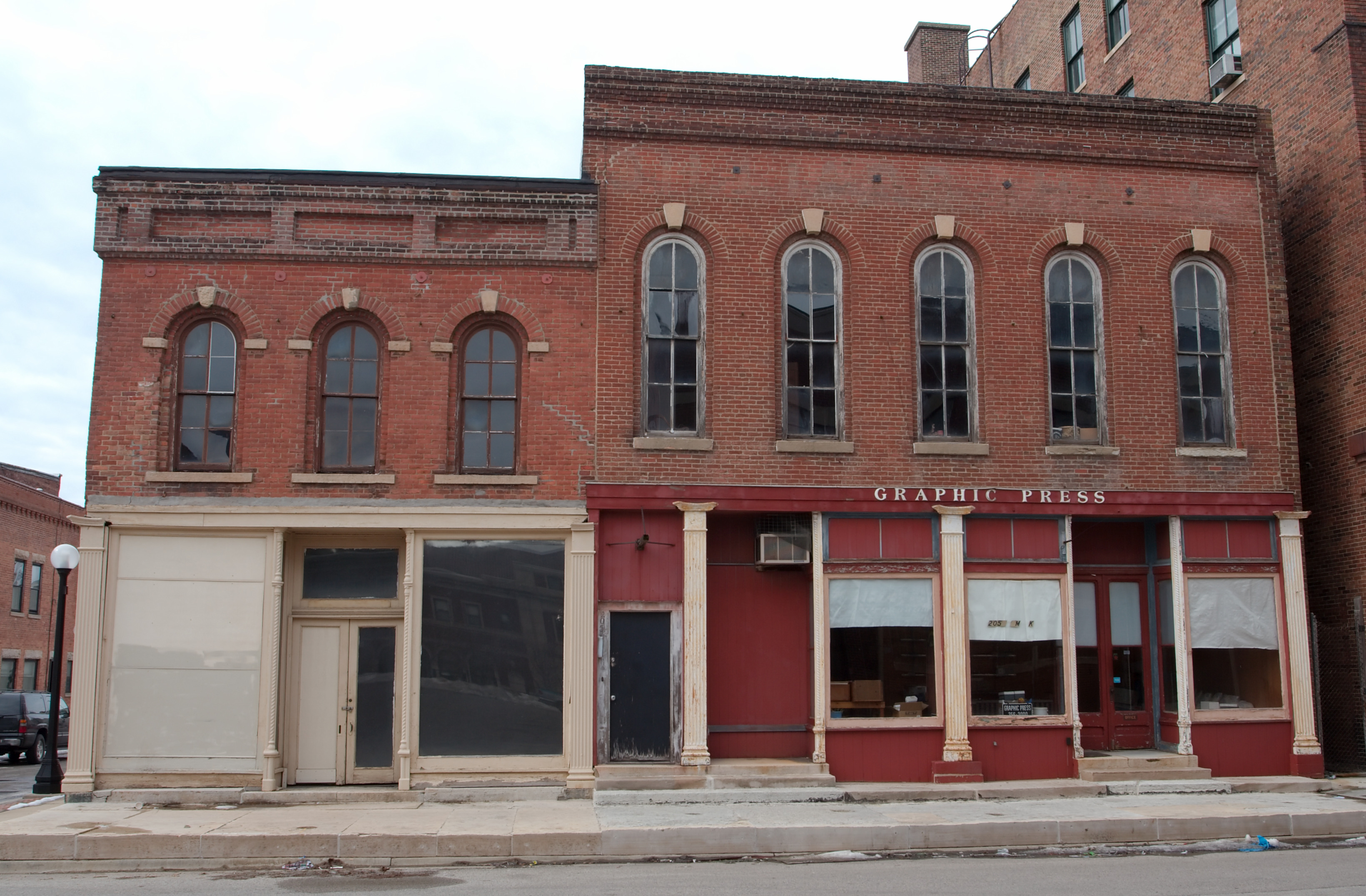 Champaign, IL Building at 203-205 North Market Street (added 1997 - Building - #97001336) Also known as Graphic Press 203-205 N. Market St., Champaign Historic Significance: Architecture/Engineering Architectural Style: Italianate Area of Significance: Architecture Period of Significance: 1850-1874 Owner: Private , Local Gov't Historic Function: Commerce/Trade Current Function: Commerce/Trade, Domestic Current Sub-function: Single Dwelling additional information: the smaller building to the left (south) is numbered 201 N. Market. The next door north, just inside the larger building, is numbered 203, and the furthest north door is numbered 205. The sidewalk in front of the buildings is solid limestone, 10 inches thick, unique in Champaign County. Note the different colors of sidewalk stone in front of the two buildings